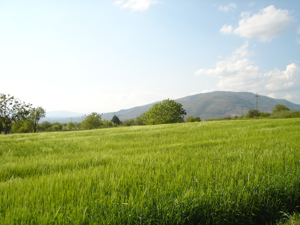 Barley field near Ajvatovci, Macedonia